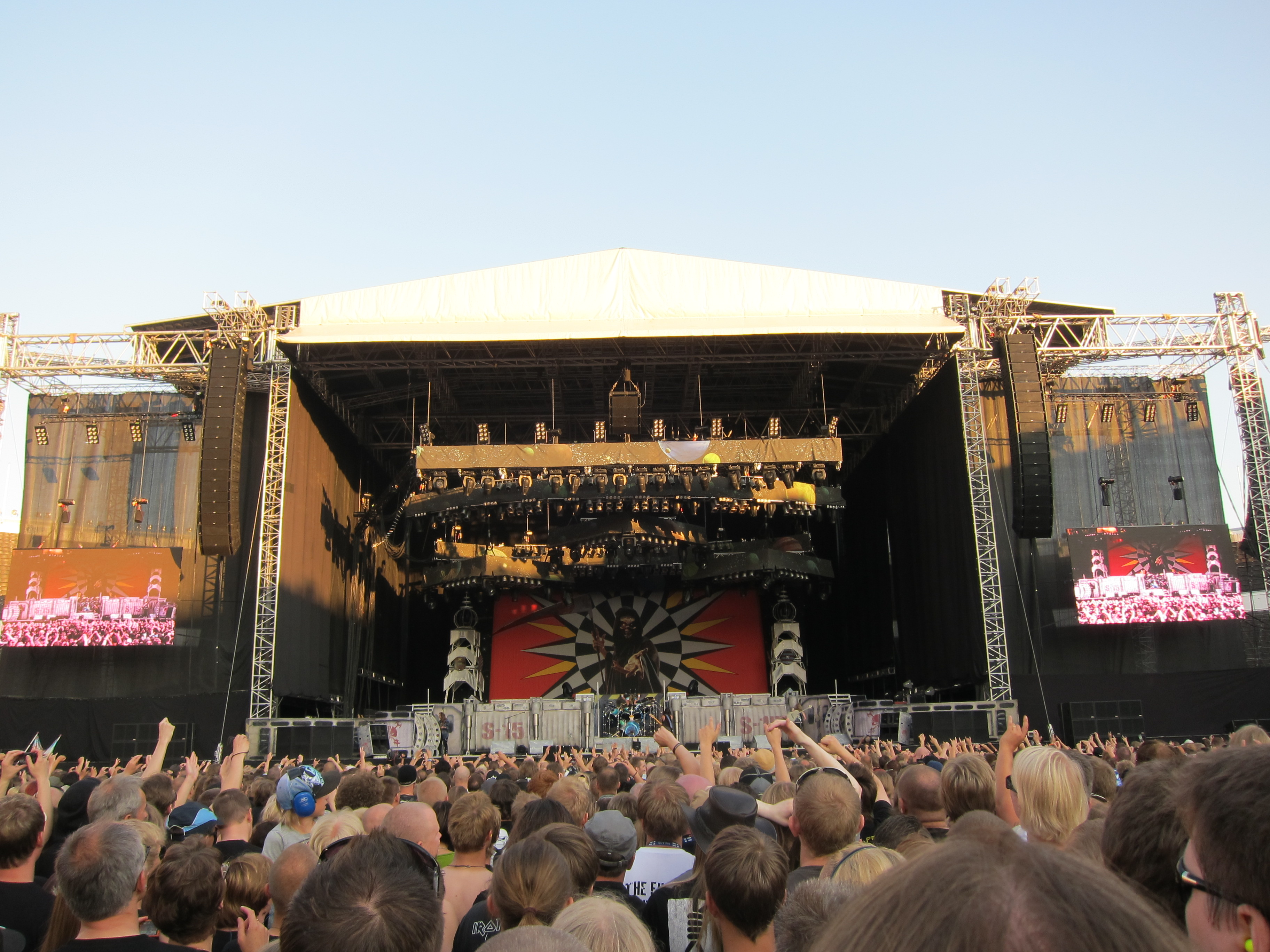 Iron Maiden performing at the Helsinki Olympic Stadium in Helsinki, Finland.